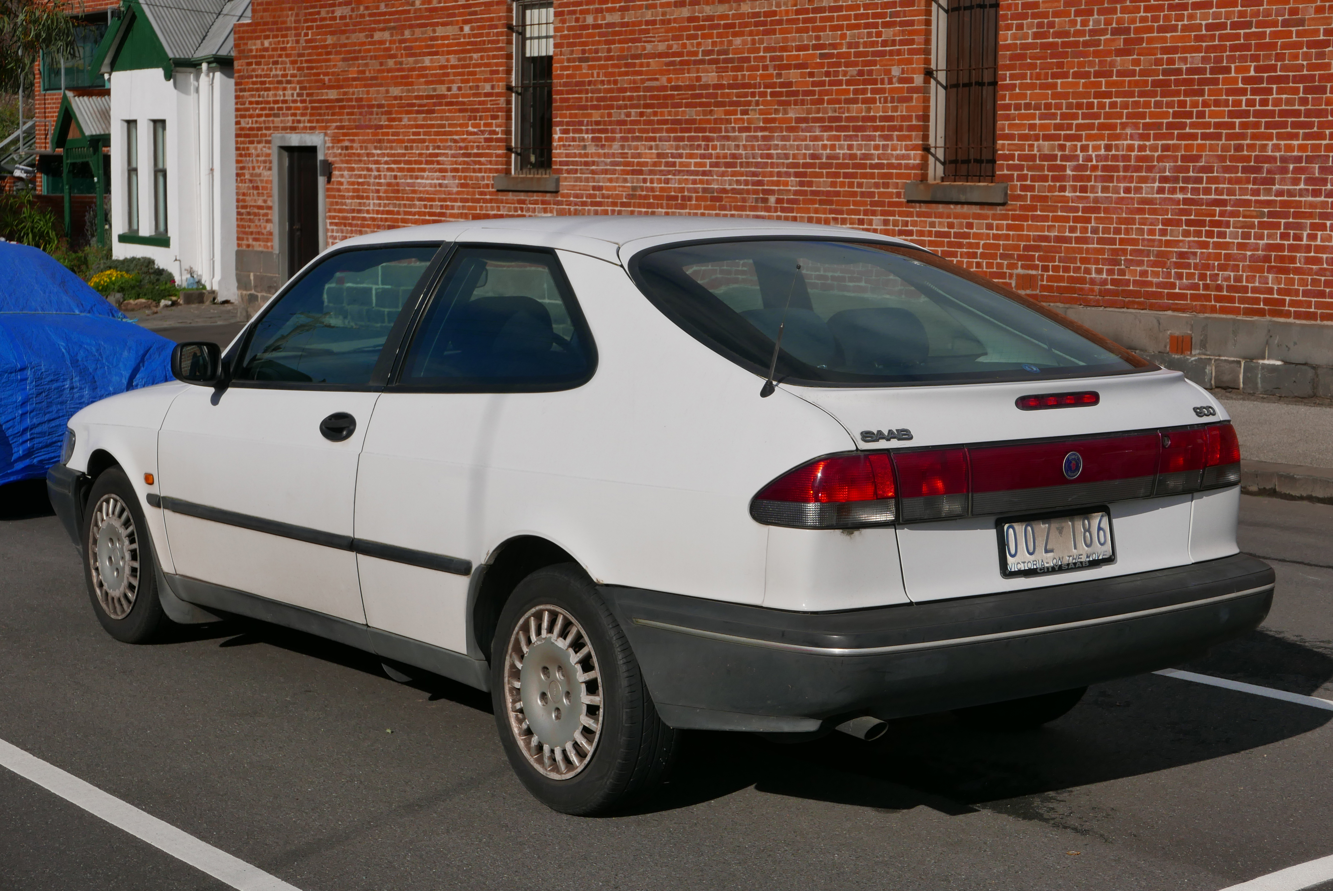 1997 Saab 900 (MY97) S 2.0 3-door hatchback. Photographed in Carlton North, Victoria, Australia. Vehicle registration enquiry results Jurisdiction Victoria Registration OOZ186 Chassis code YS3DB35J0V2028027 Engine code B204IDM00V053082 Compliance date 1997-10 Year of manufacture 1997